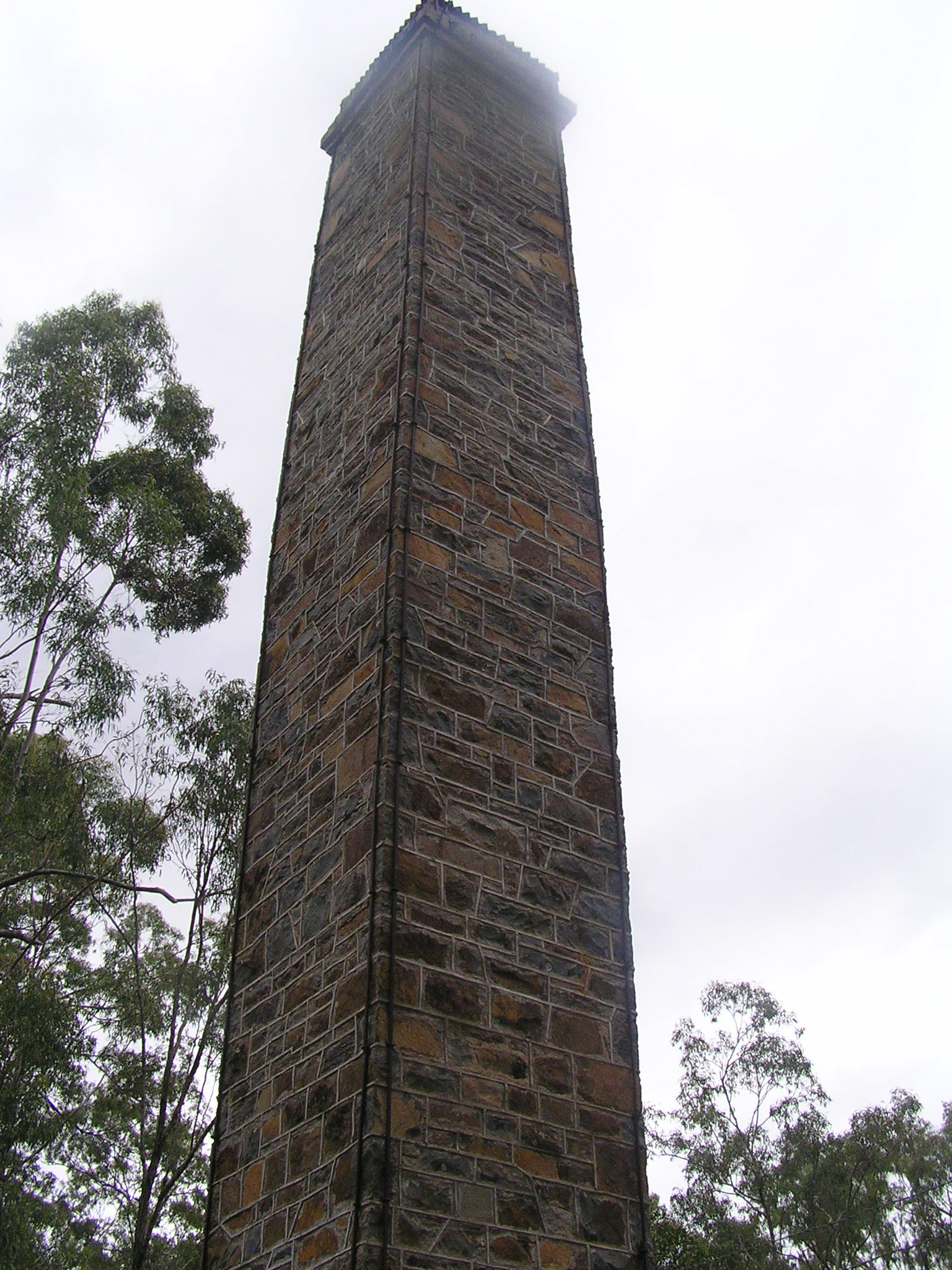 The chimney was used during the 19th and early 20th century to extract copper.